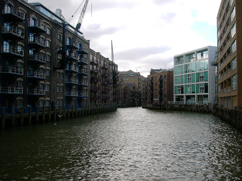 St. Saviour's Dock at flood tide